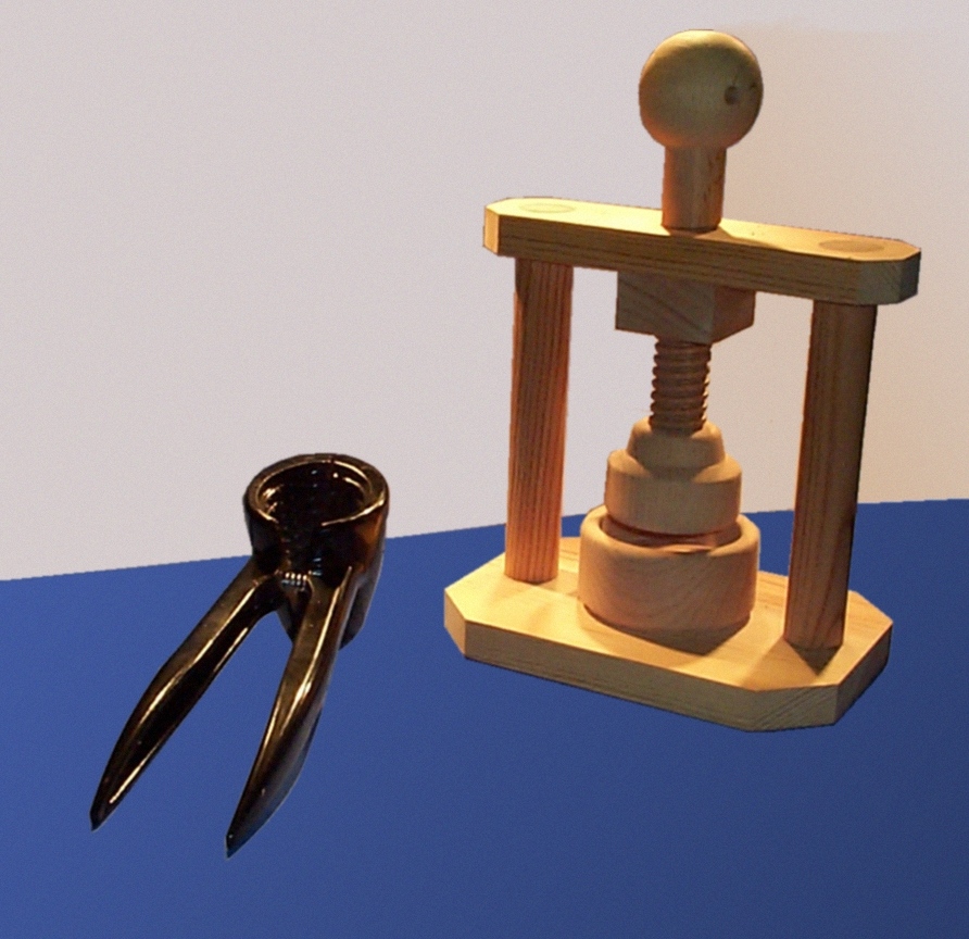 Two kinds of nutcrackers